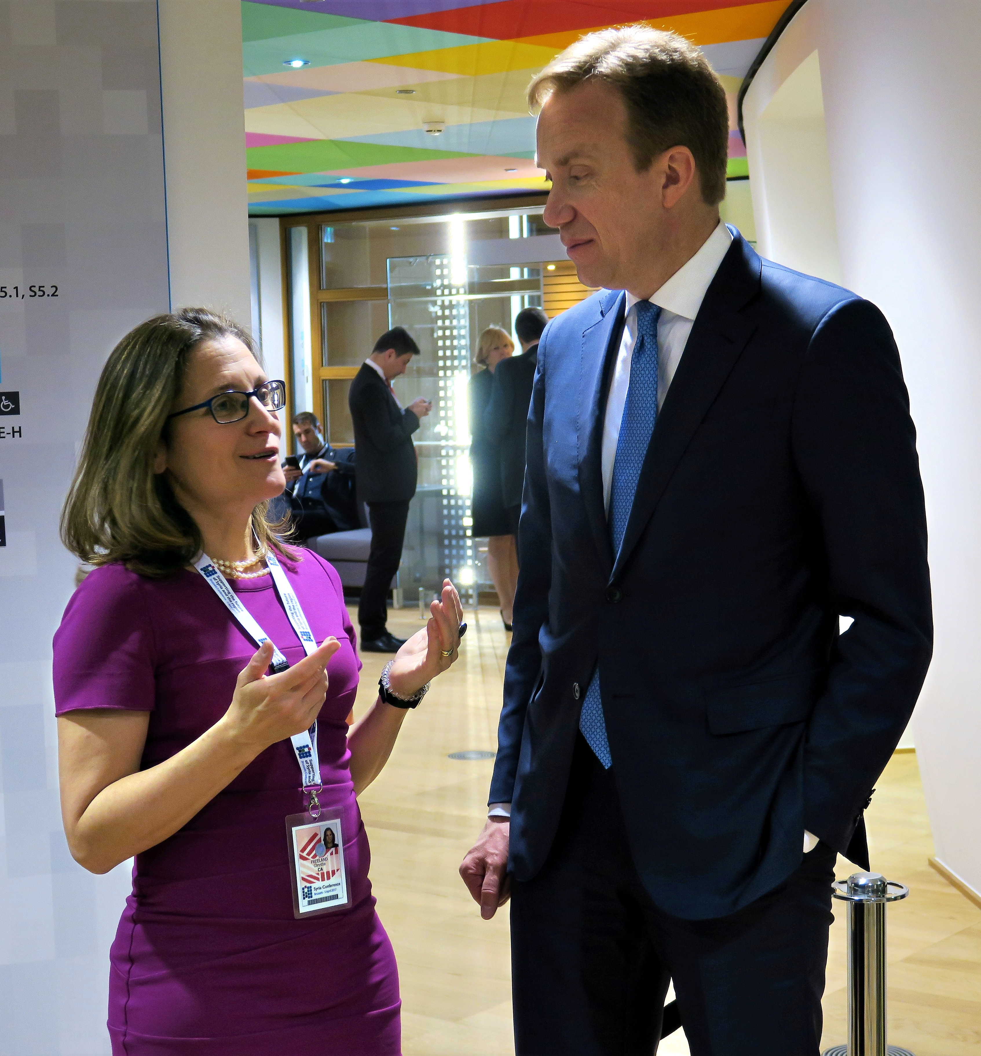 Chrystia Freeland with Børge Brende at the Brussels Conference on Supporting the future of Syria and the region.